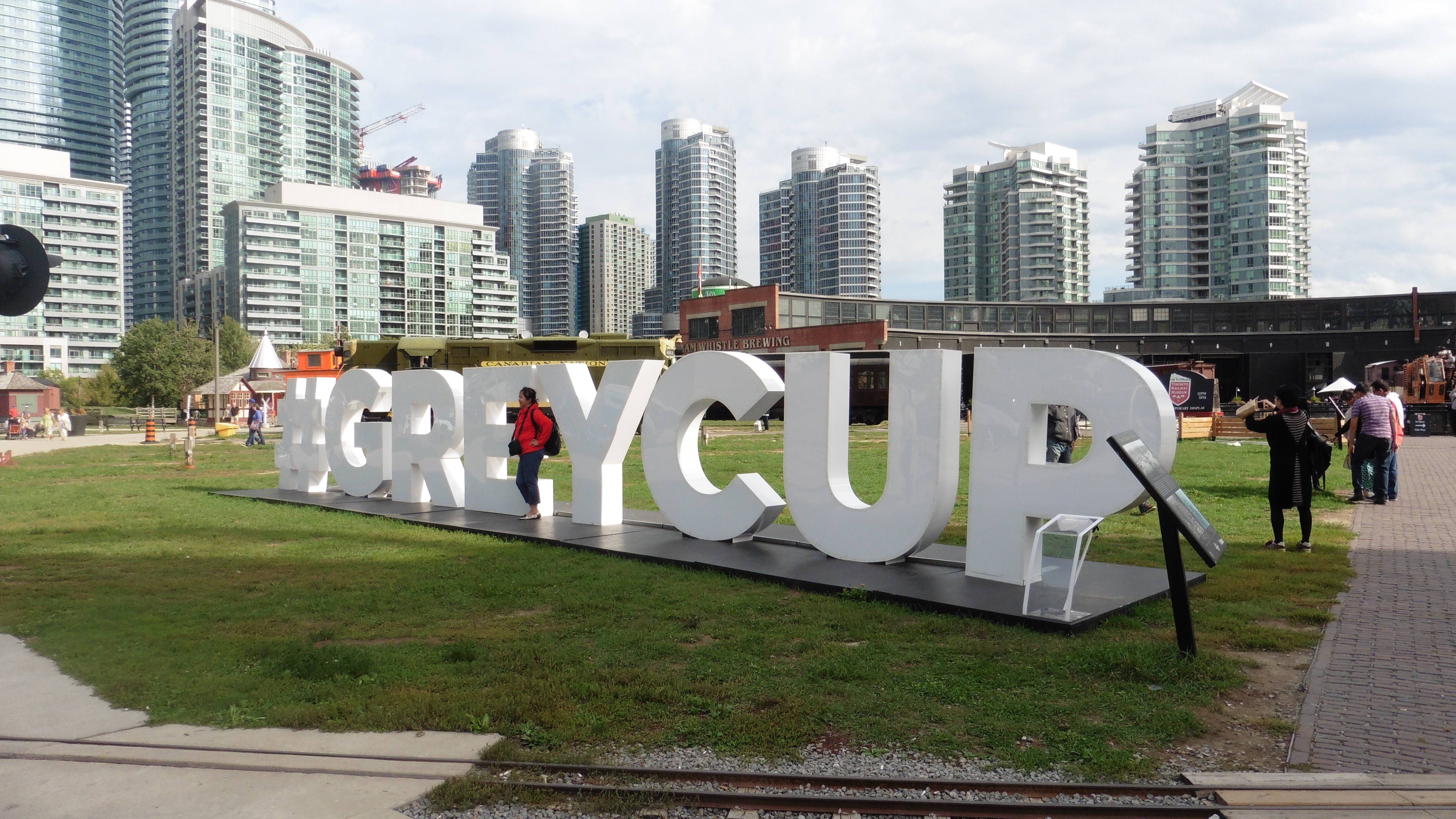 Grey Cup letters